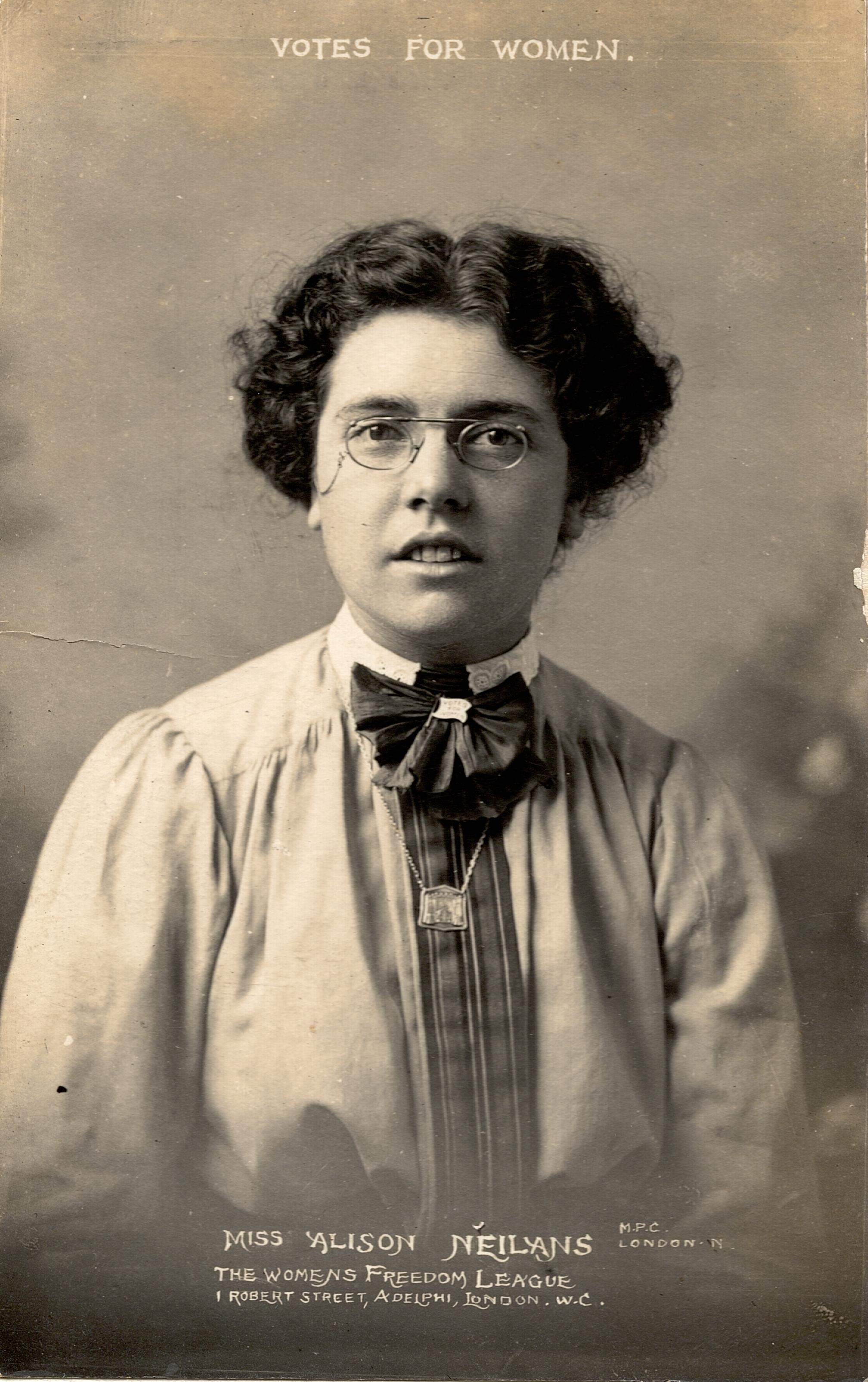 twl 2009 01 30 Alison Neilans